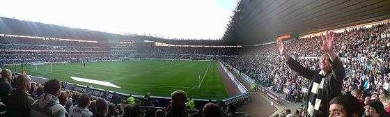 Panorama taken from the South Stand.